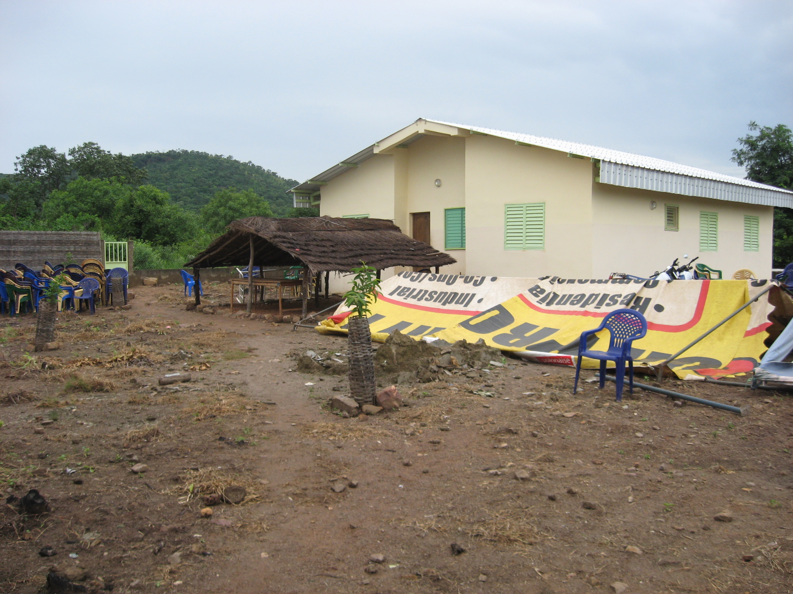 Dimboli health post (Kedougou region, Senegal)